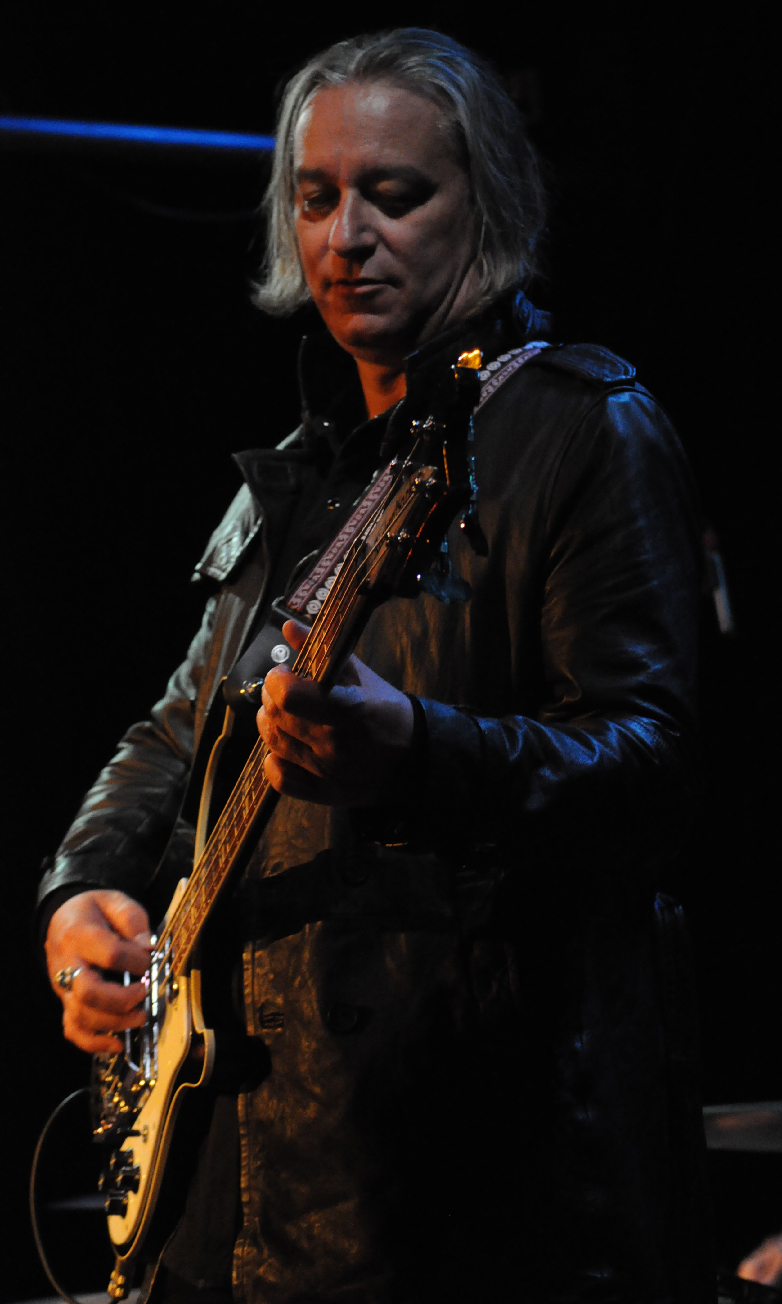 Peter Buck playing with The Baseball Project at the Tractor, Ballard, Seattle, Washington.